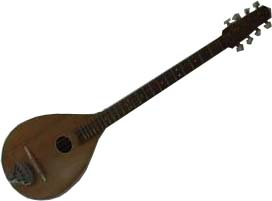 Bulgarian tambura own picture